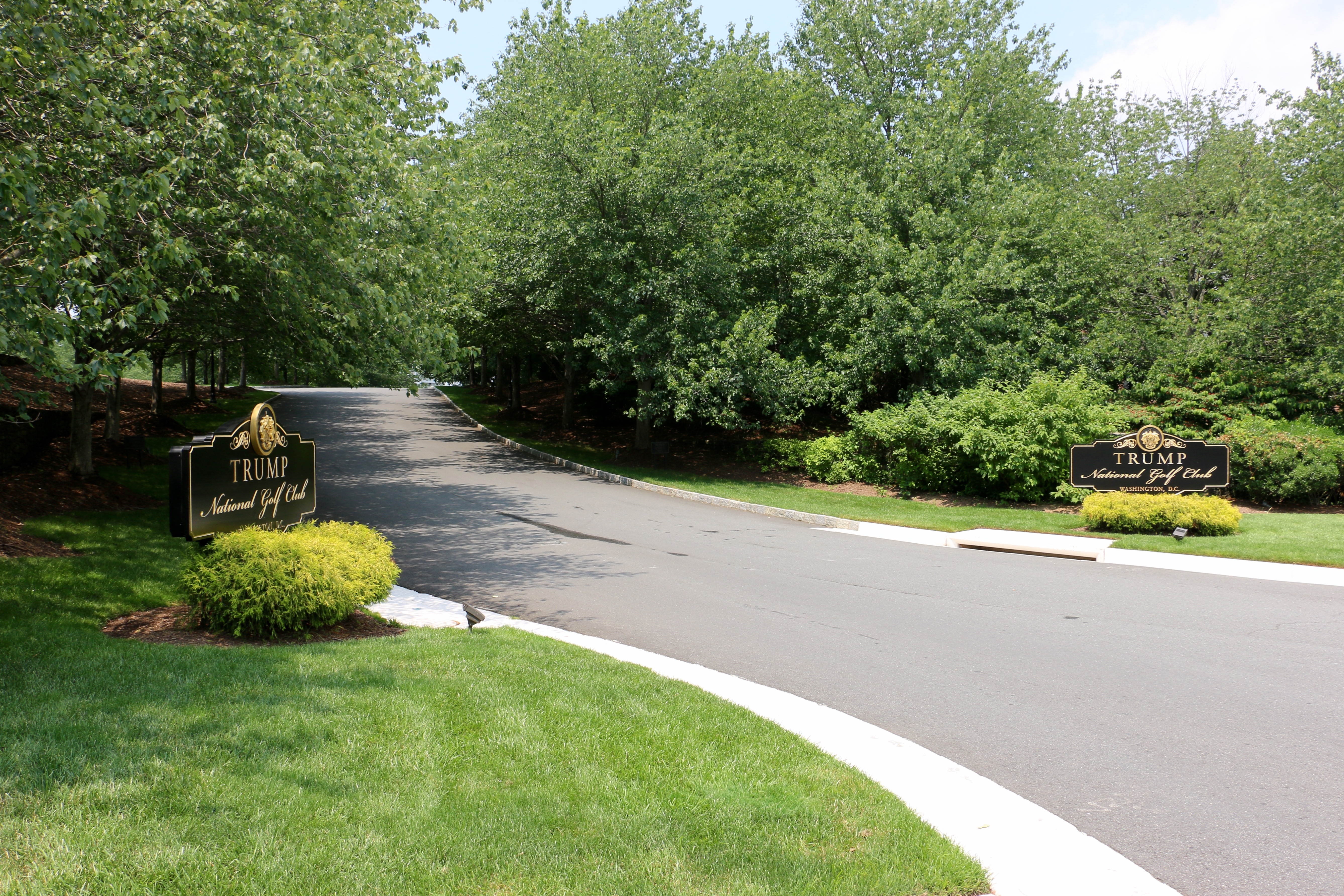 The entrance to the Washington DC Trump National Golf Club (formerly Lowes Island Country Club) in Cascades, VA.